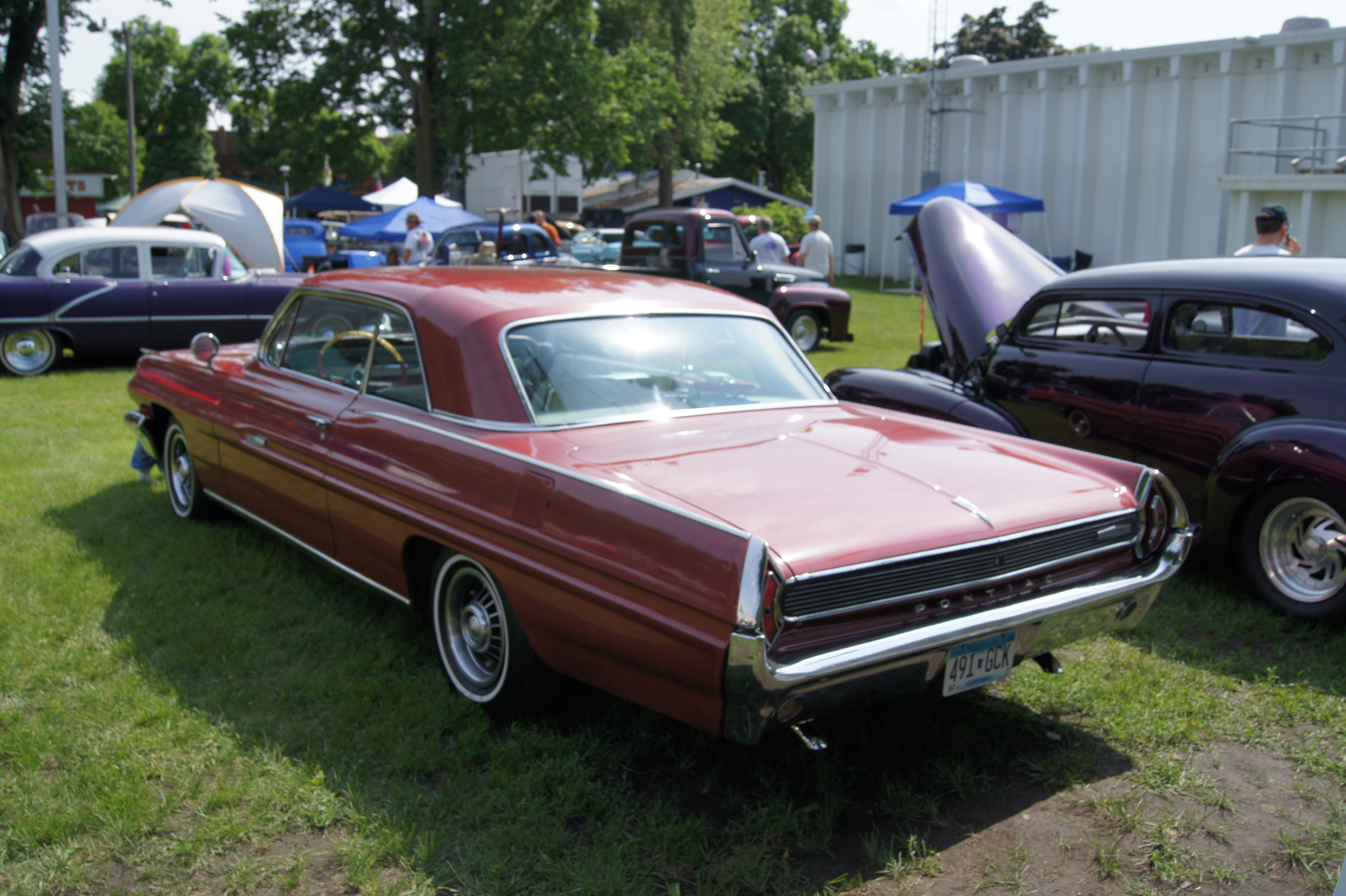 MSRA “BACK TO THE 50′s” 40th ANNIVERSARY June 21-23, 2013 State Fairgrounds St. Paul Minnesota More Car Pictures